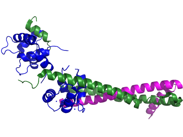 This is a ribbon diagram of the human cardiac troponin core complex (52 kDa, PDB ID 1J1E).